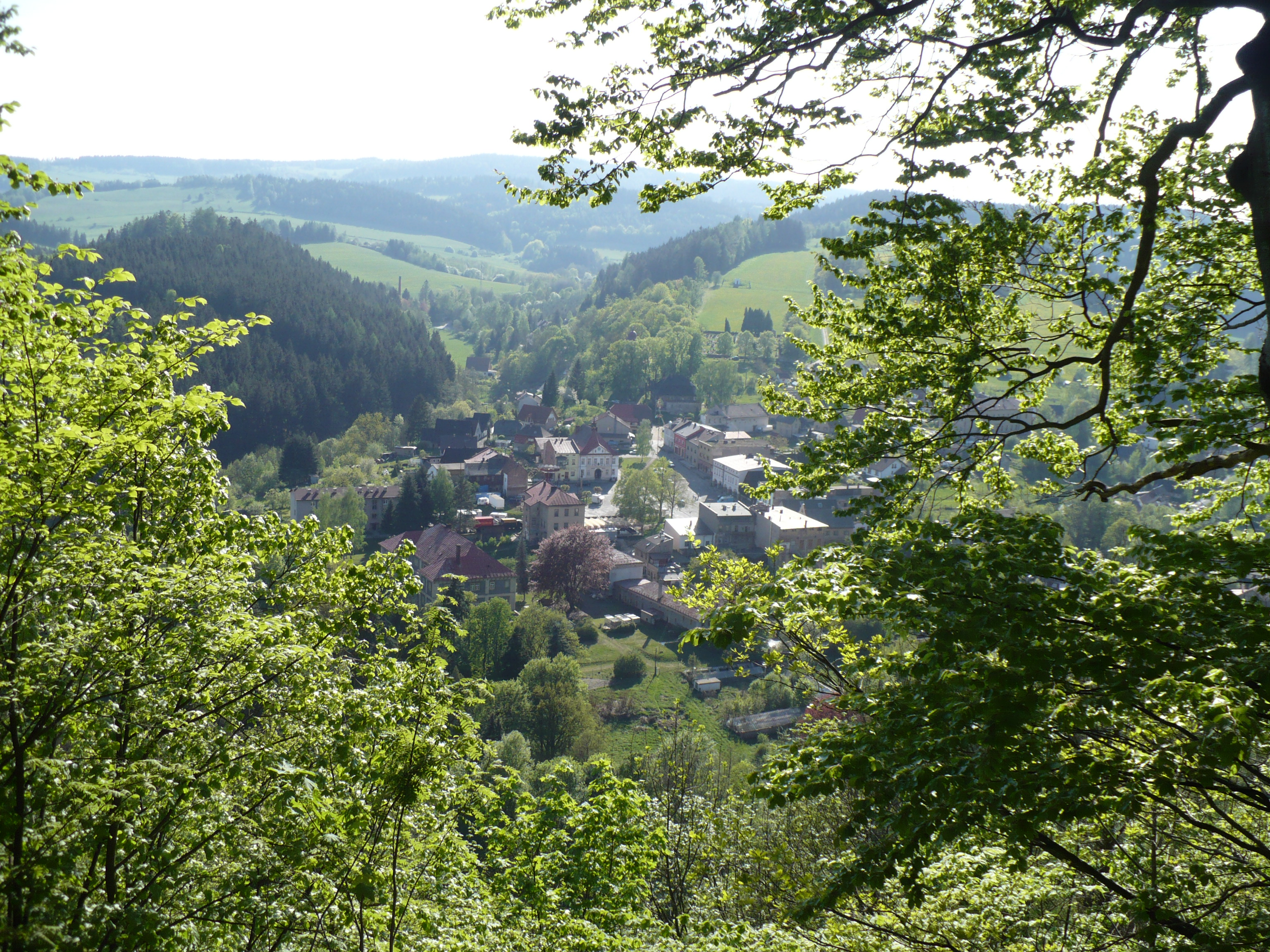 View of Vysoky kamen